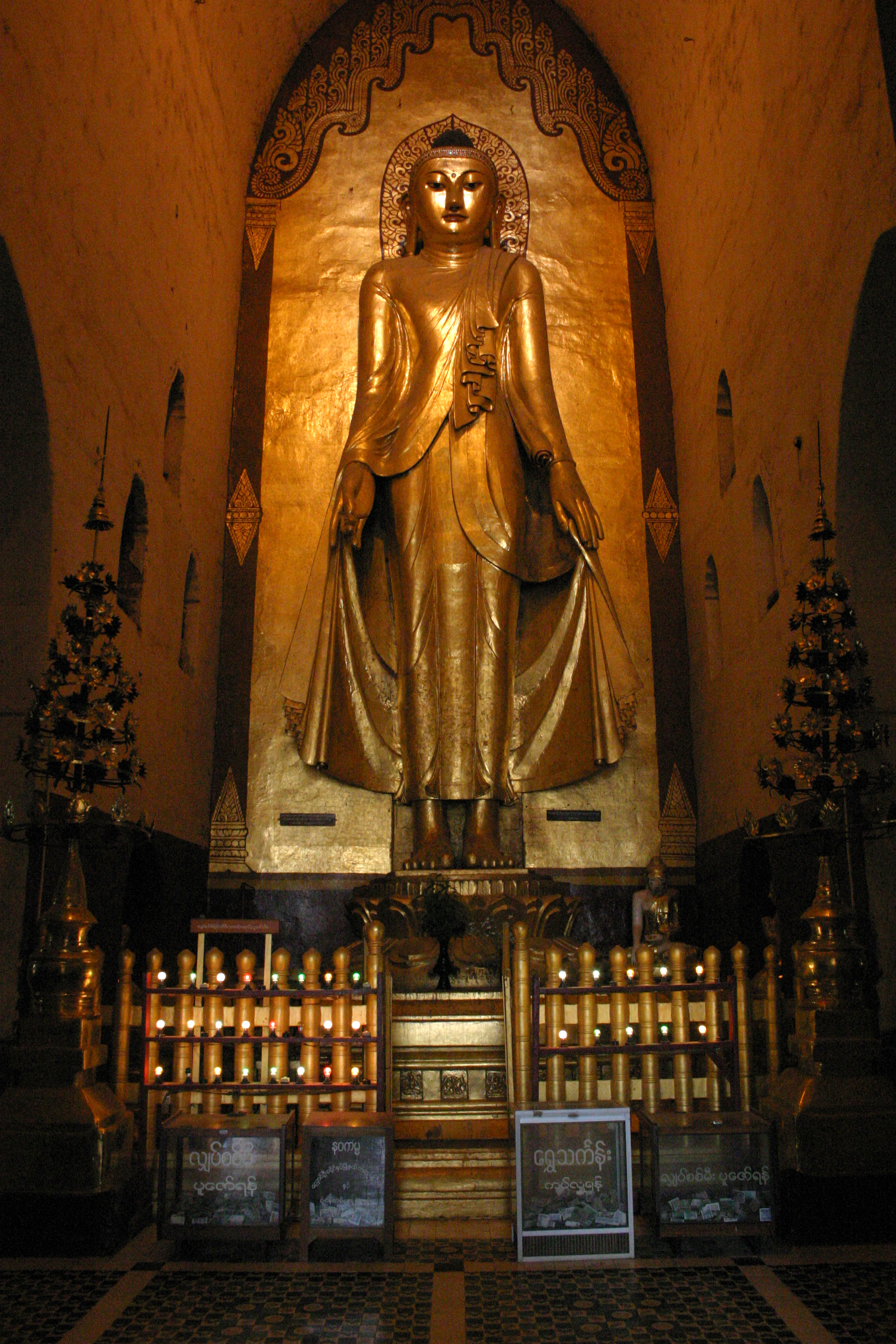 Ananda temple in Bagan, Myanmar.